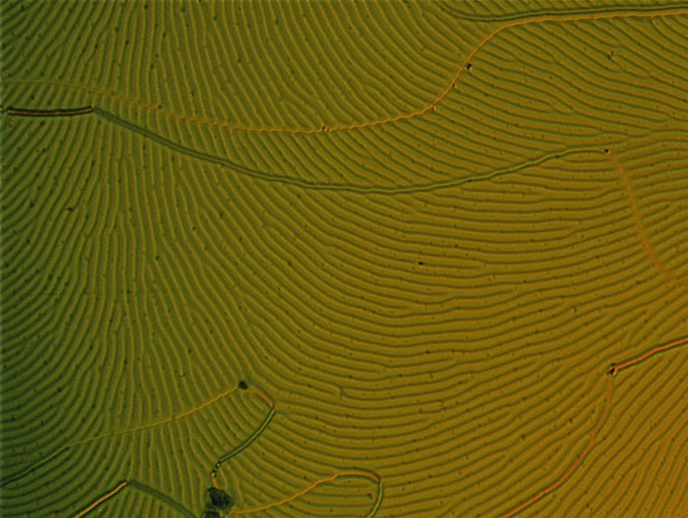 Fingerprint region (cholesteric phase) of liquid crystal K15 doped with a synthetic molecular motor